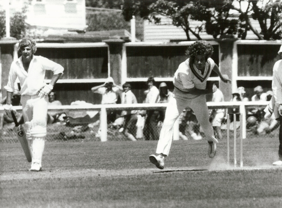 Bob Willis, English cricket player (bowling) February 1978, Basin Reserve, Wellington AAQT 6539 W3537 box 16 L7/17/1/82] Archives New Zealand